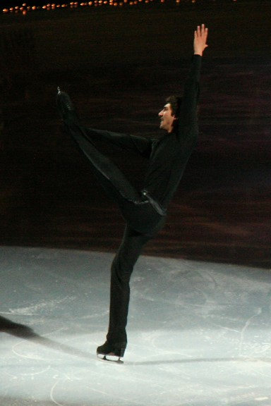 Evan Lysacek performs a spiral at the 2006 Skate America exhibition.